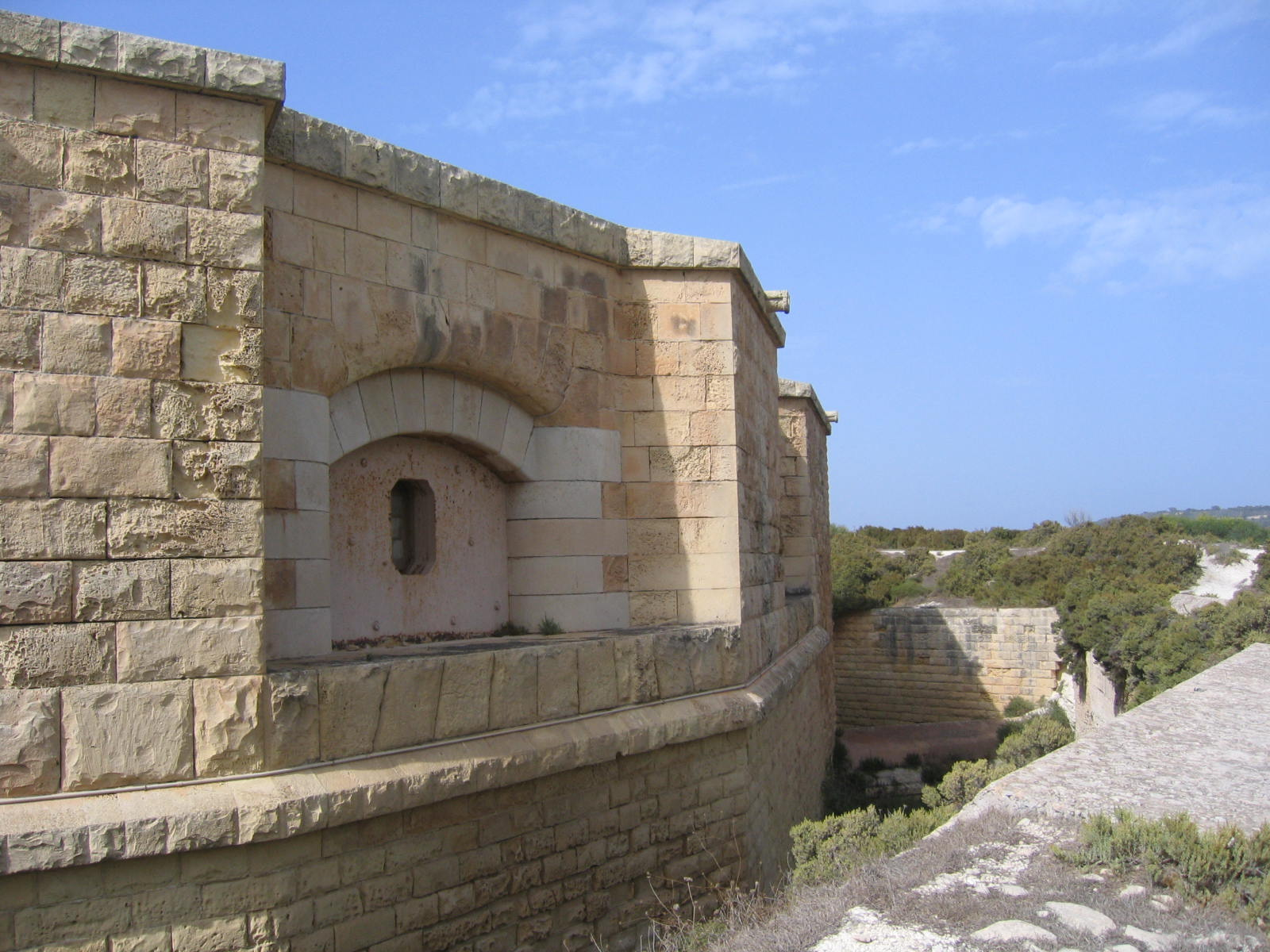 St Lucian's Tower, Marsaxlokk, Malta. Casemate (one of three) Copyright H.J.Moyes Sept 2005. All Rights Reserved